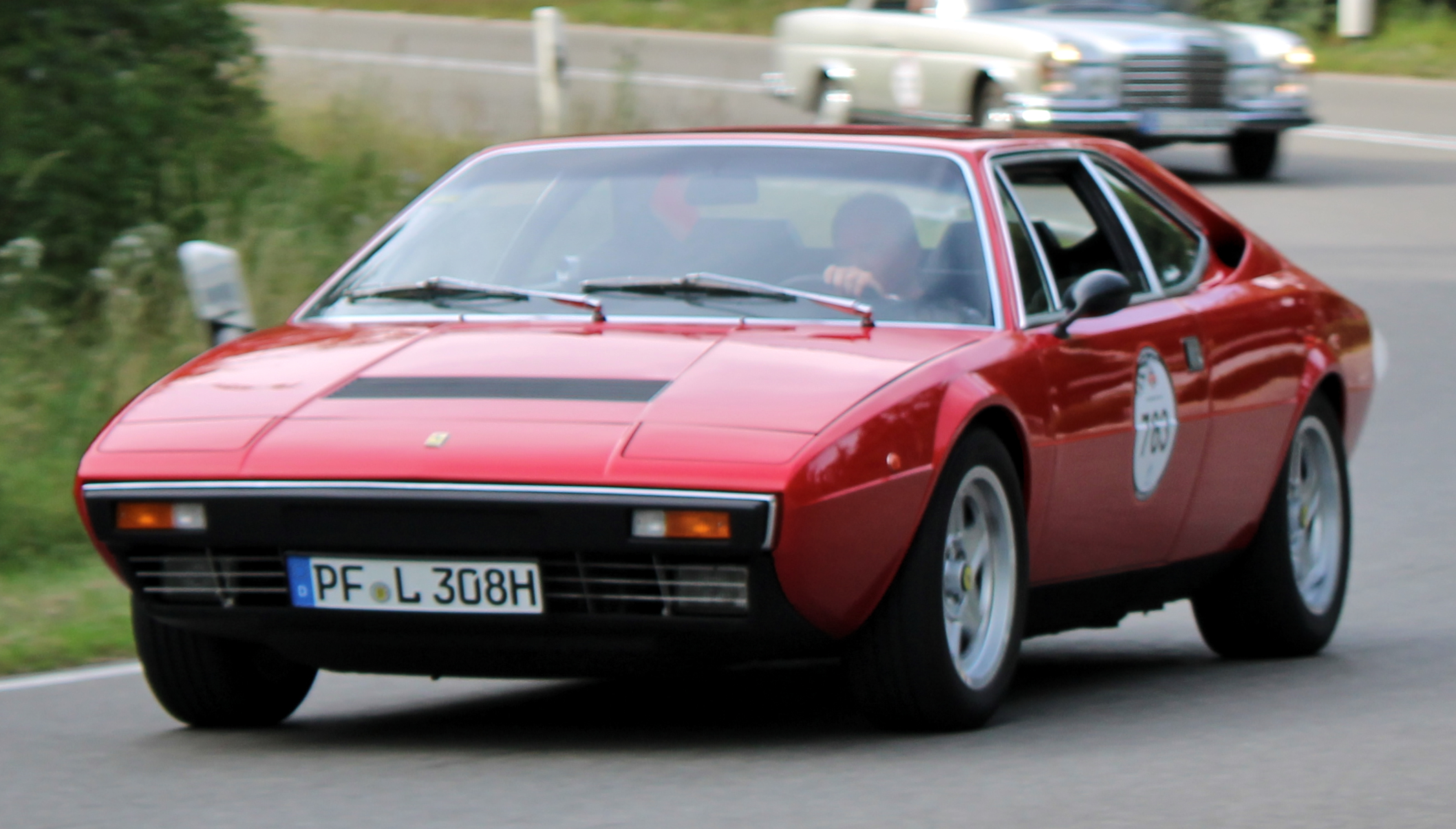 Ferrari Dino 308 GT4 (1978) at Solitude Revival 2019